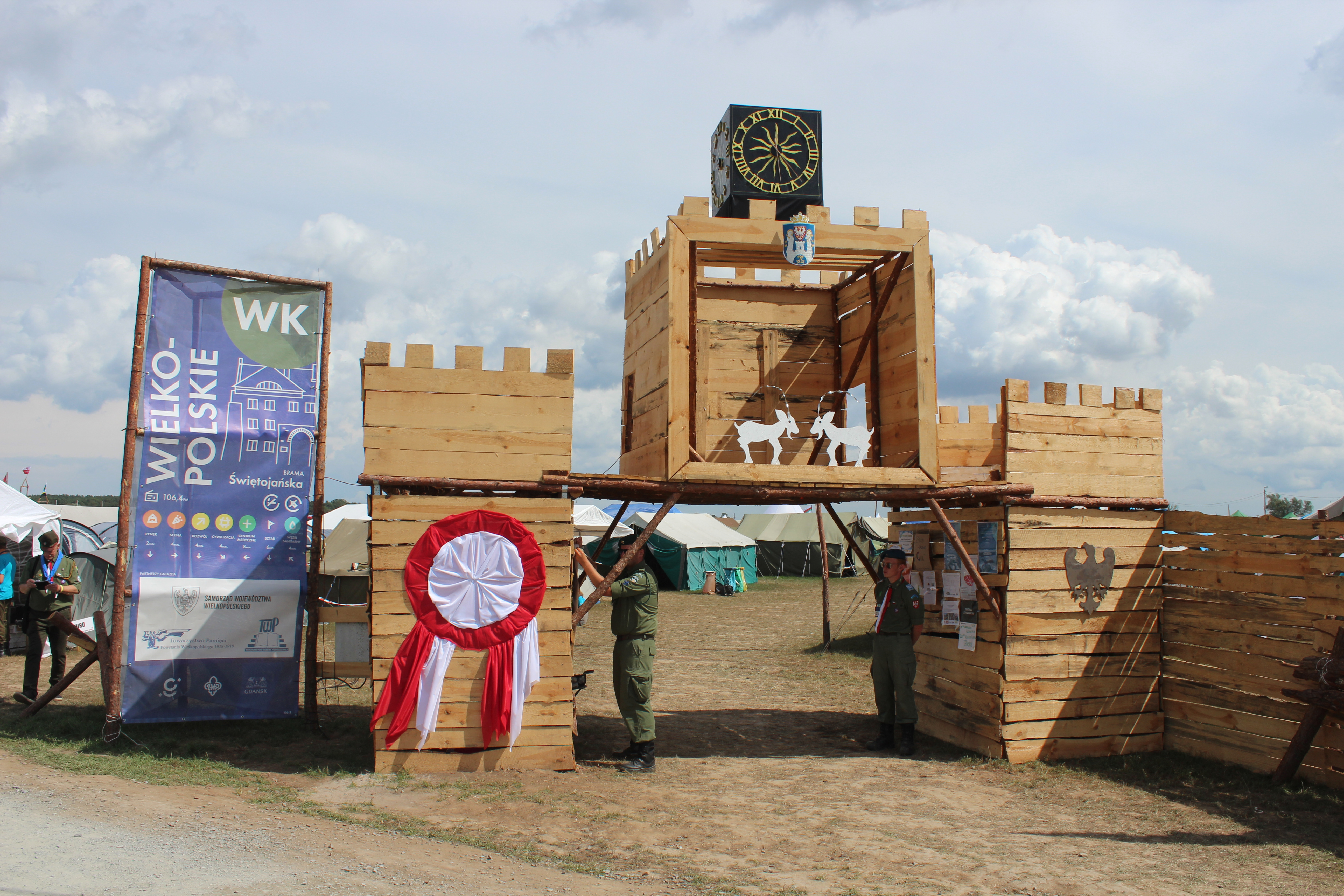 Gdańsk 2018 - Polish Scouting and Guiding Association Jamboree